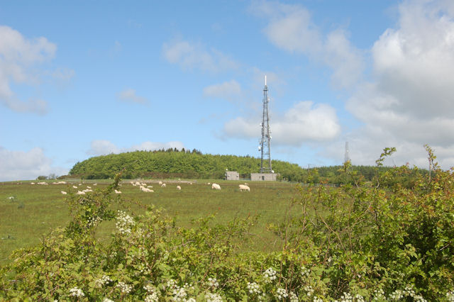 Transmitter Masts